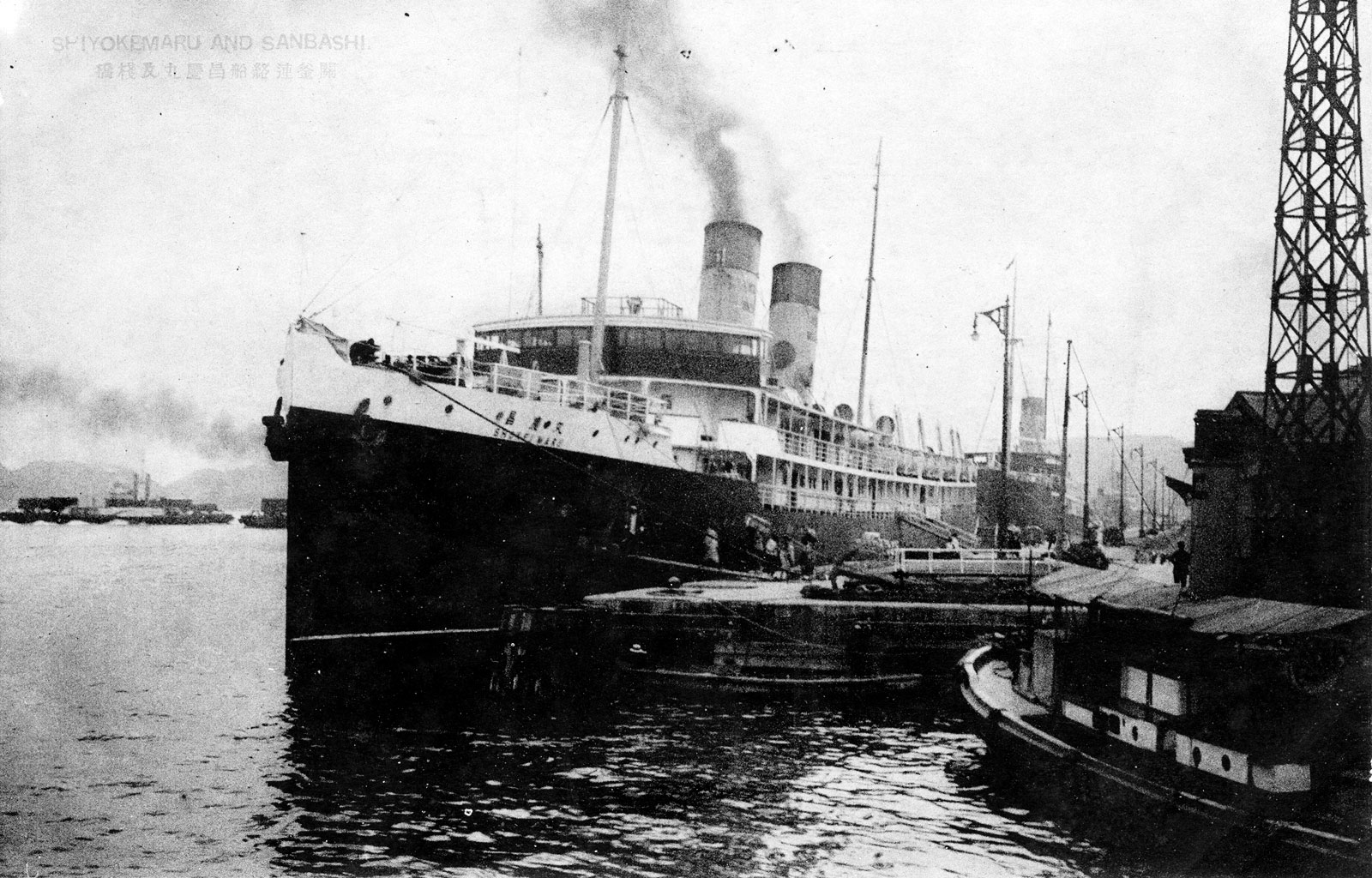 Japanese Government Railways ferry Shokei Maru (1923-1961) docked at the Railroad Wharf in Shimonoseki